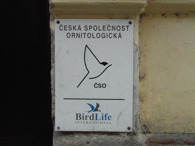 Czech Society for Ornithology